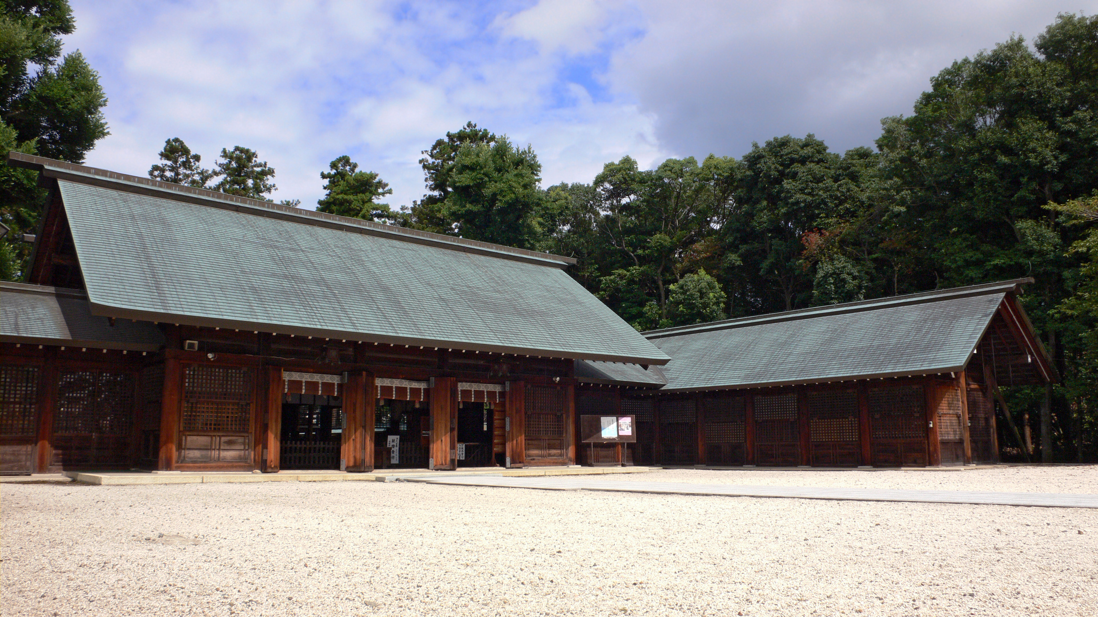 Shigaken-gokoku-jinja in Hikone, Shiga prefecture, Japan